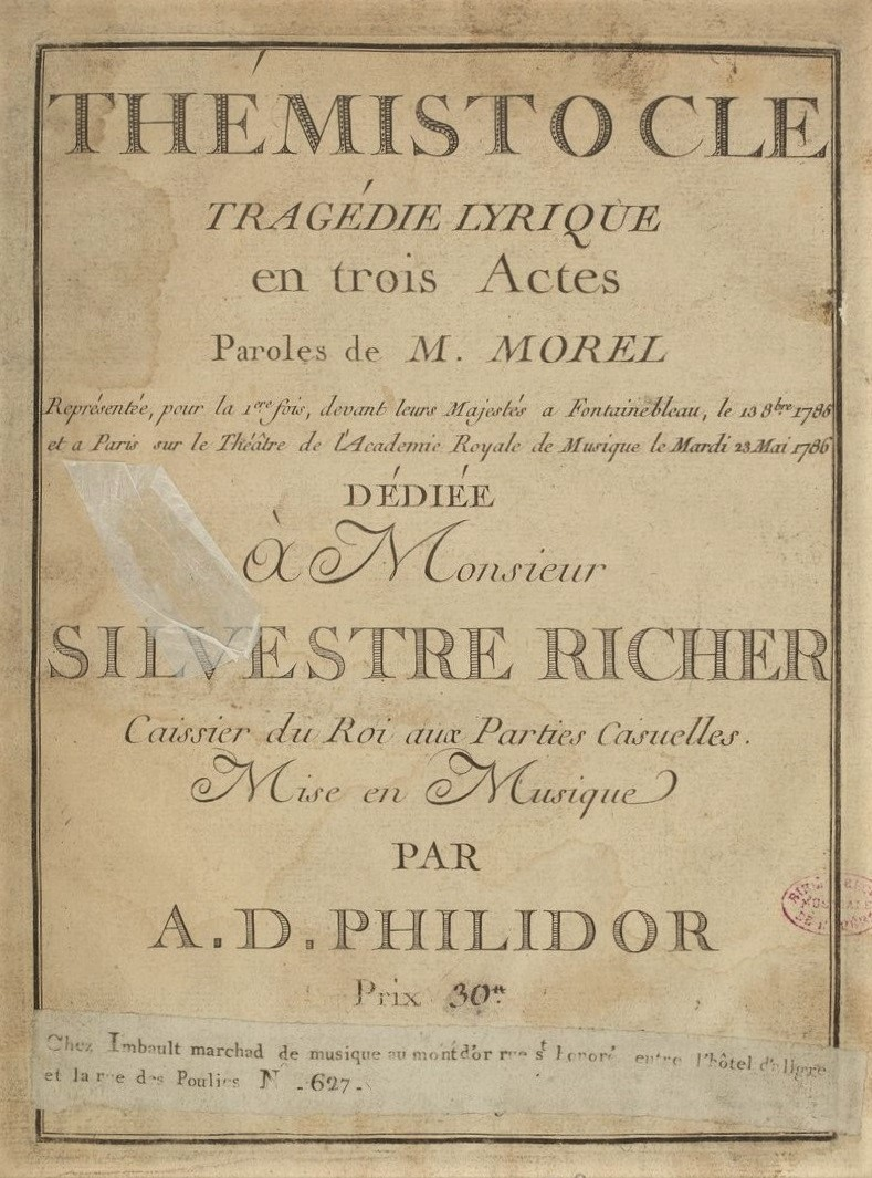 Title page of the score for François-André Danican Philidor's opera Thémistocle